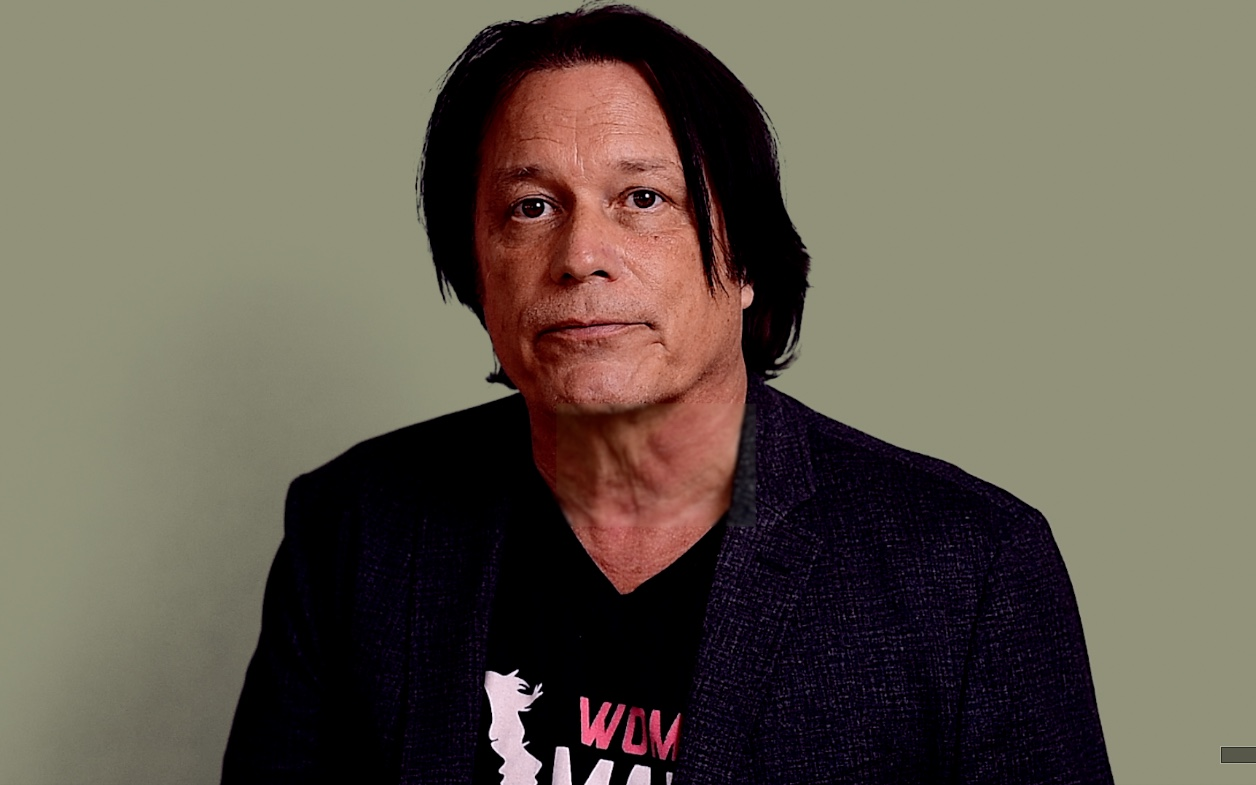 An image of filmmaker Thomas Keith